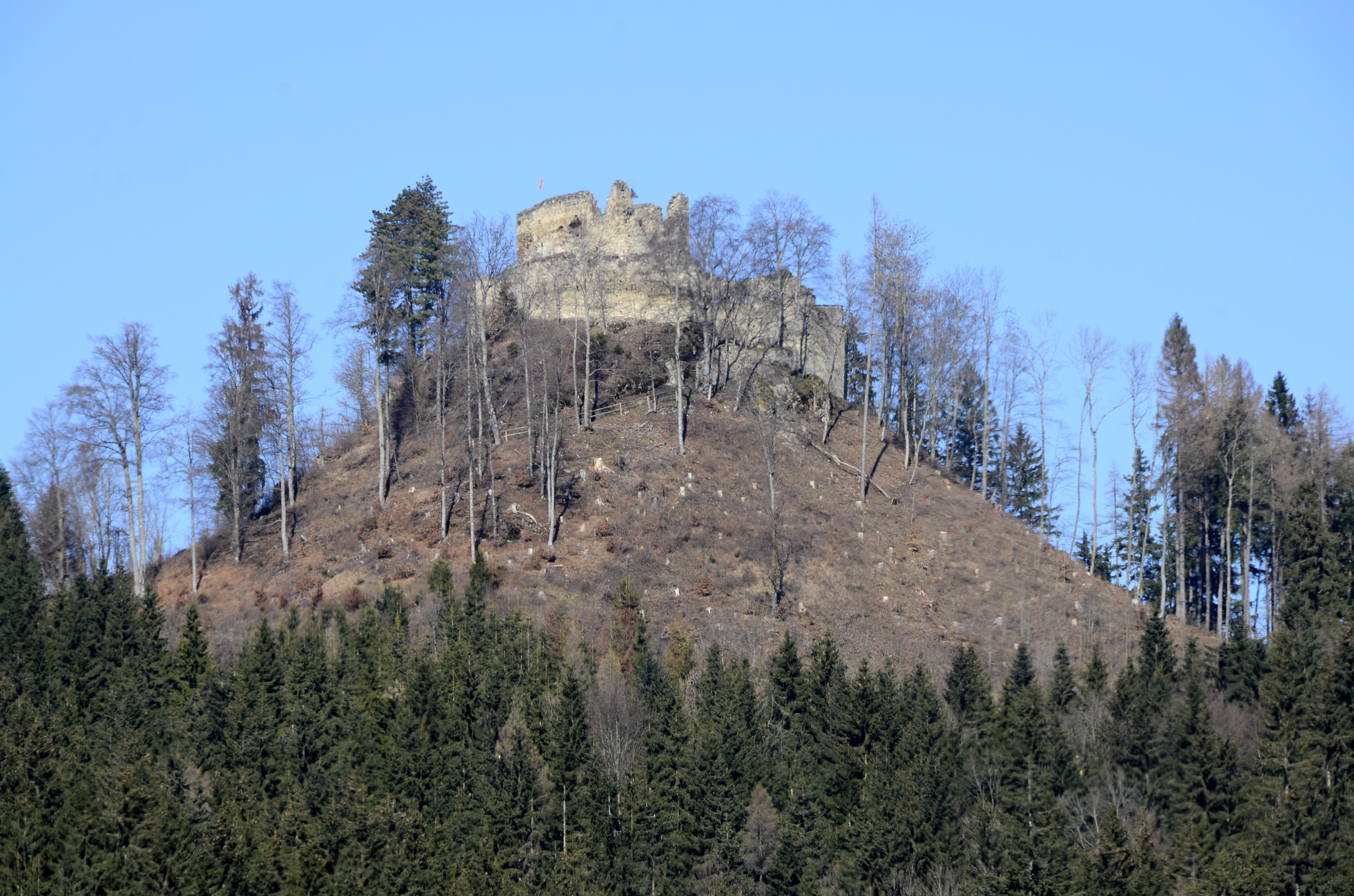 Castle ruins Hornburg, municipality Klein Sankt Paul, district Sankt Veit an der Glan, Carinthia / Austria / EU